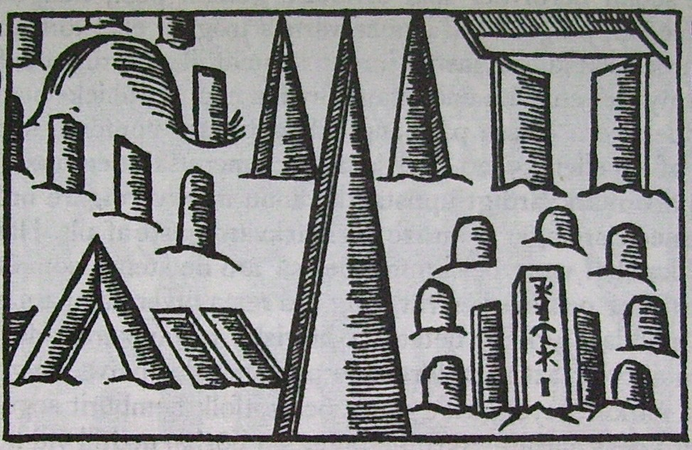 Picture of drawing of tombstones